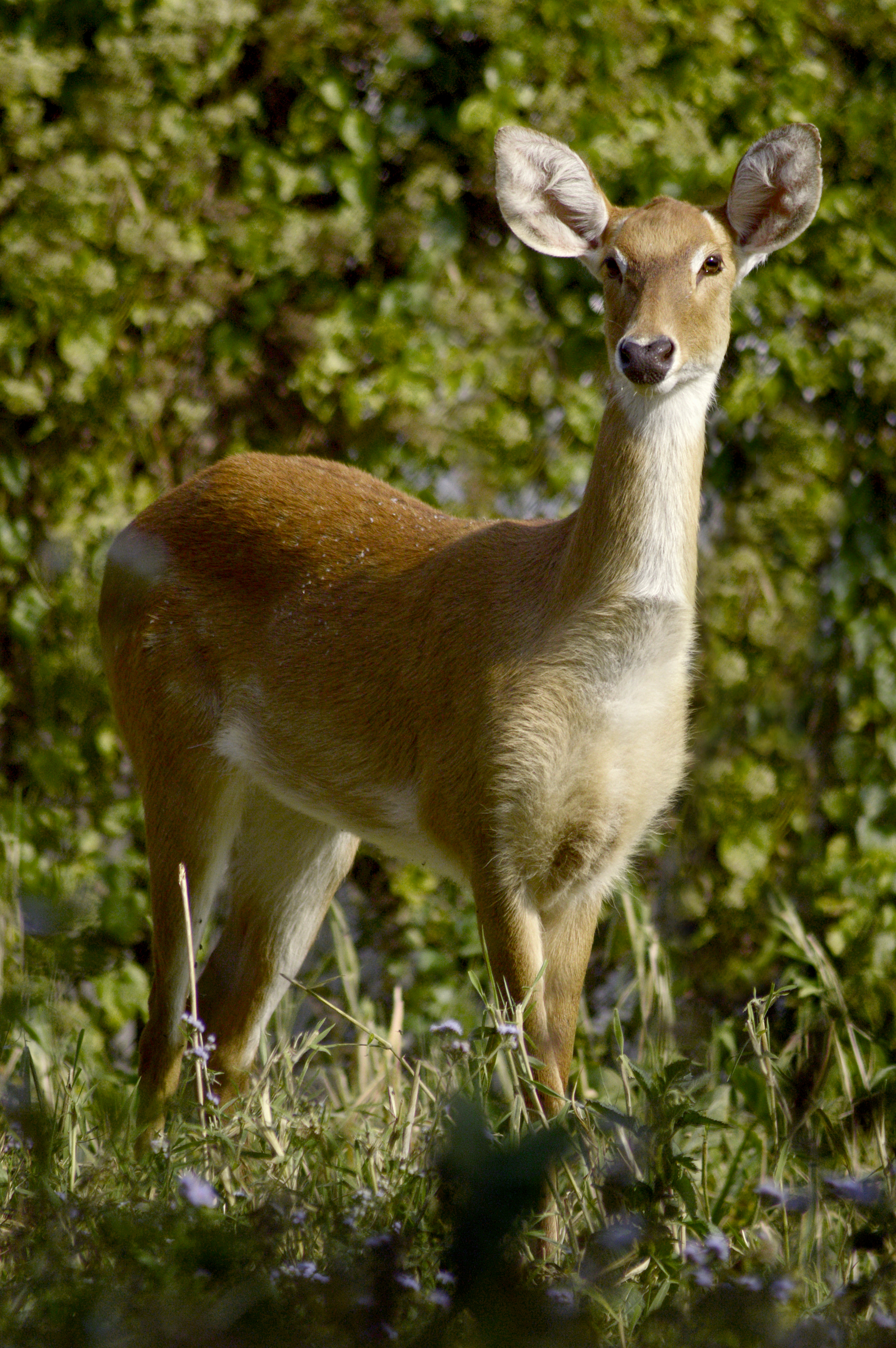 Sangai(Rucervus eldii eldii) at the Keibullamjao National Park, Manipur, . This is a female Sangai and just after i took this picture she ran away in high speed. Sangai is an endangered species under IUCN